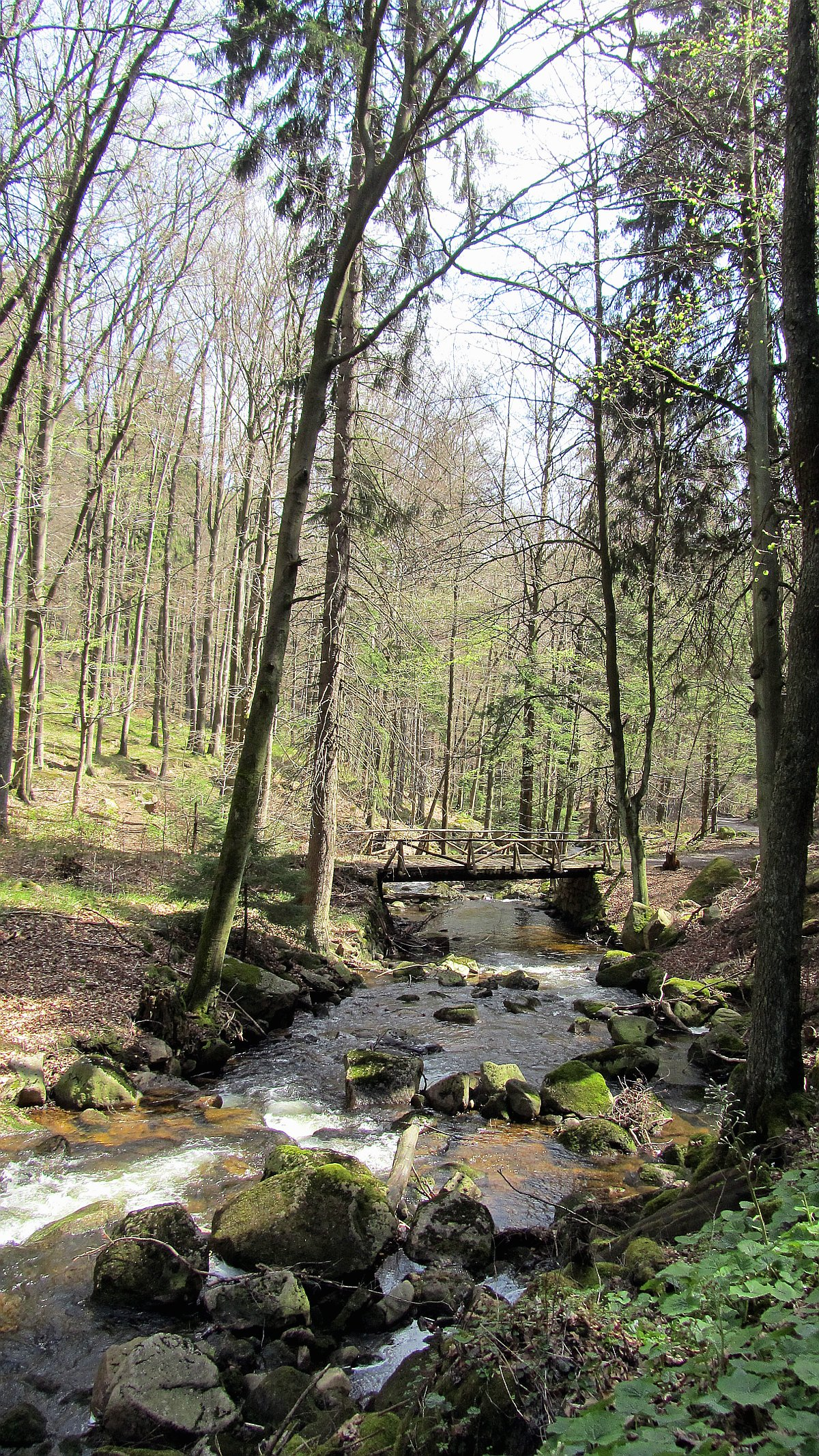 Germany / Harz Mountains: creek Ilse in the Nationalpark Harz between Ilsenburg und Bremer Hütte